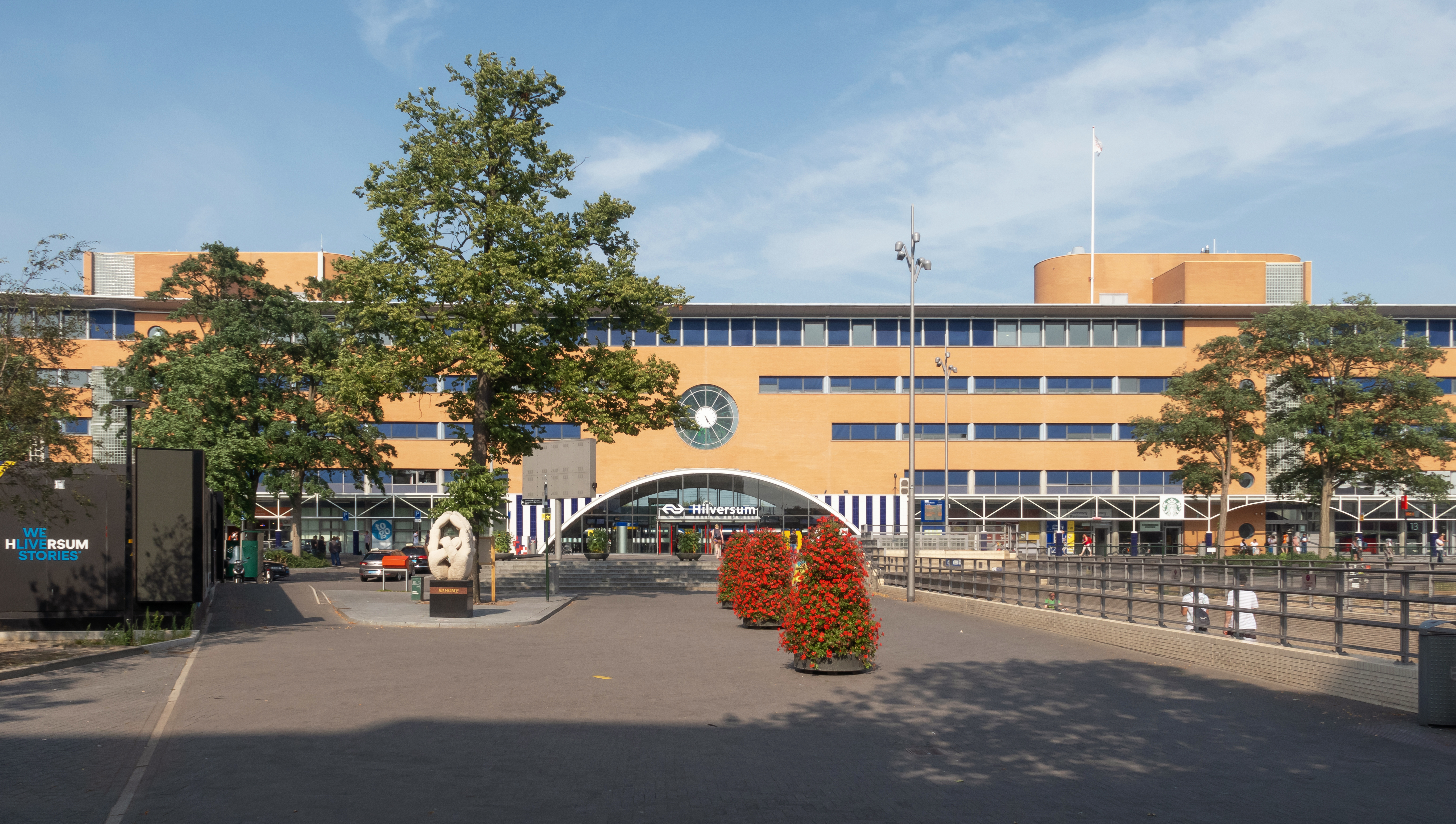 Hilversum, the railway station